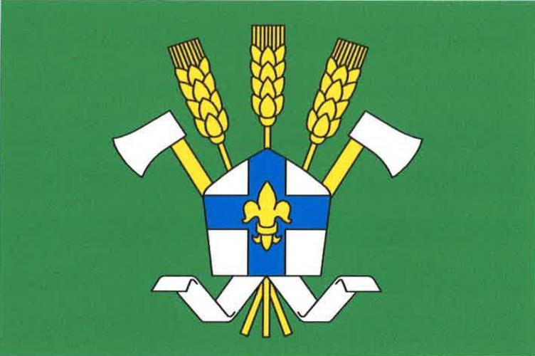 Municipal flag of Dobev village, Písek District, Czech Republic.